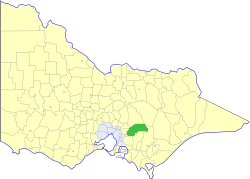 Location of the Shire of Upper Yarra within Victoria.